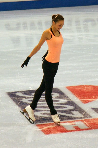 Sarah Meier at the 2006 Skate America.